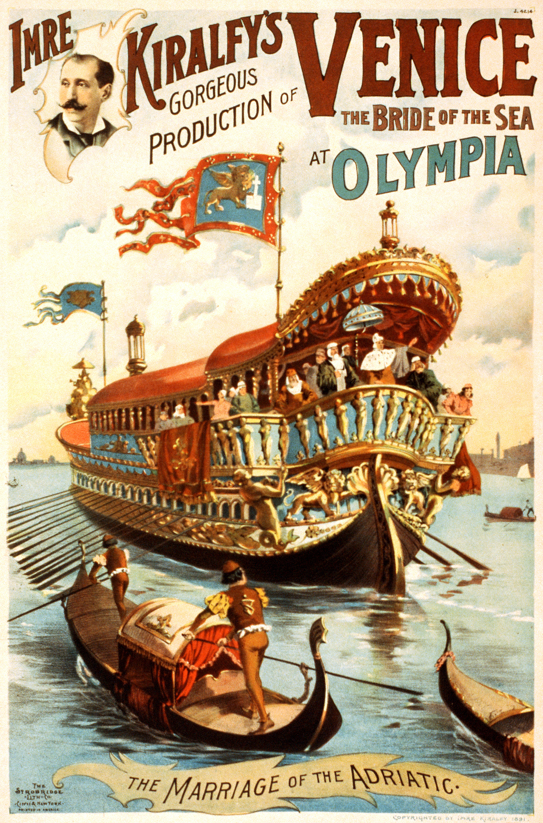 Imre Kiralfy's gorgeous production of Venice, the bride of the sea, at Olympia. The marriage of the Adriatic.